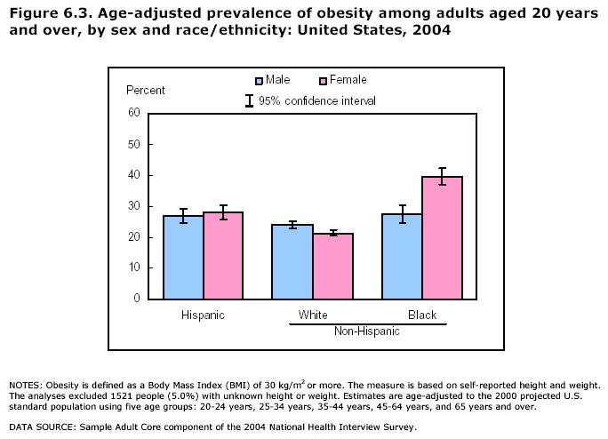 This is a diagram showing rates of obesity in US by race.